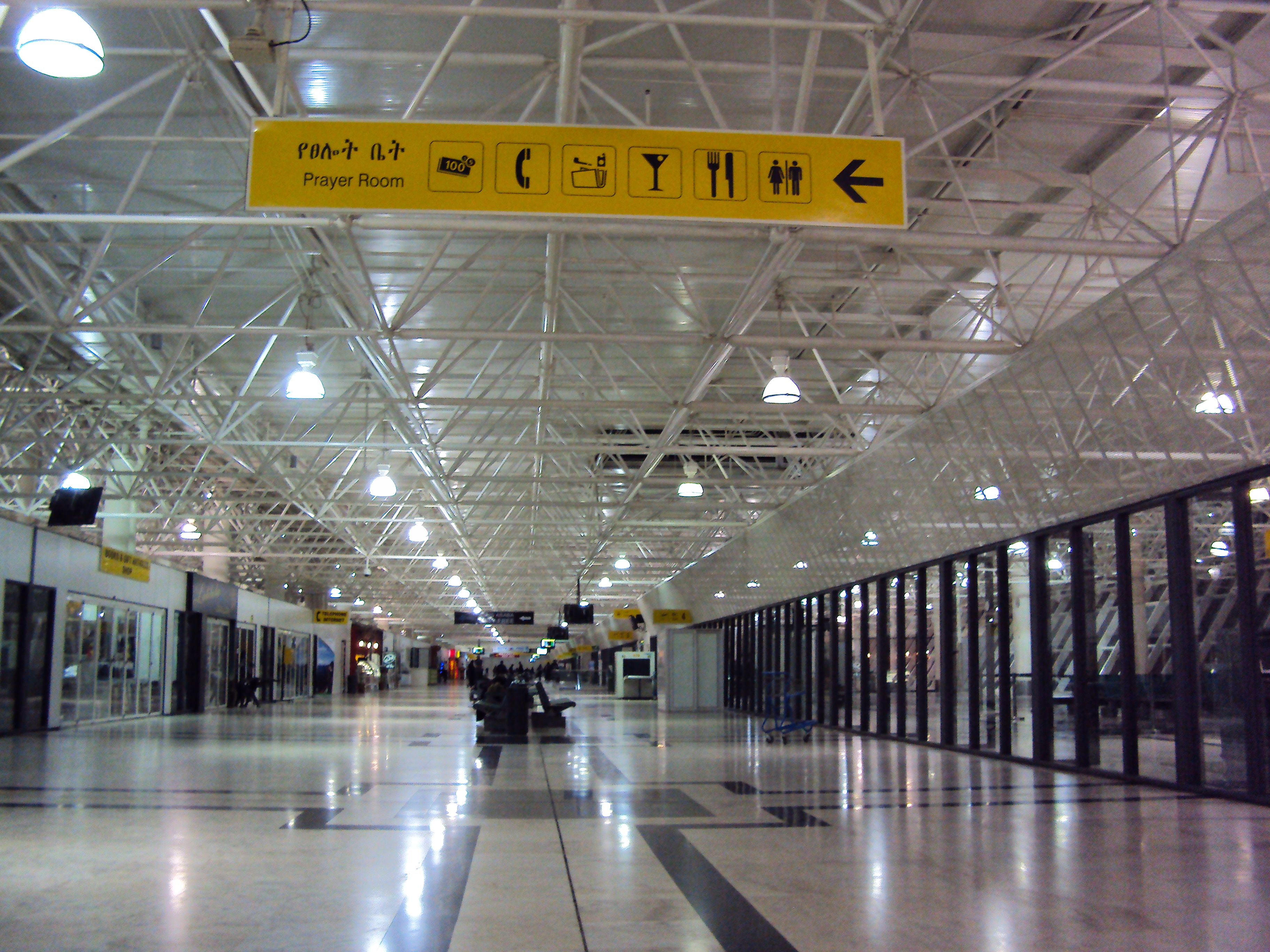 International gates - airport 2